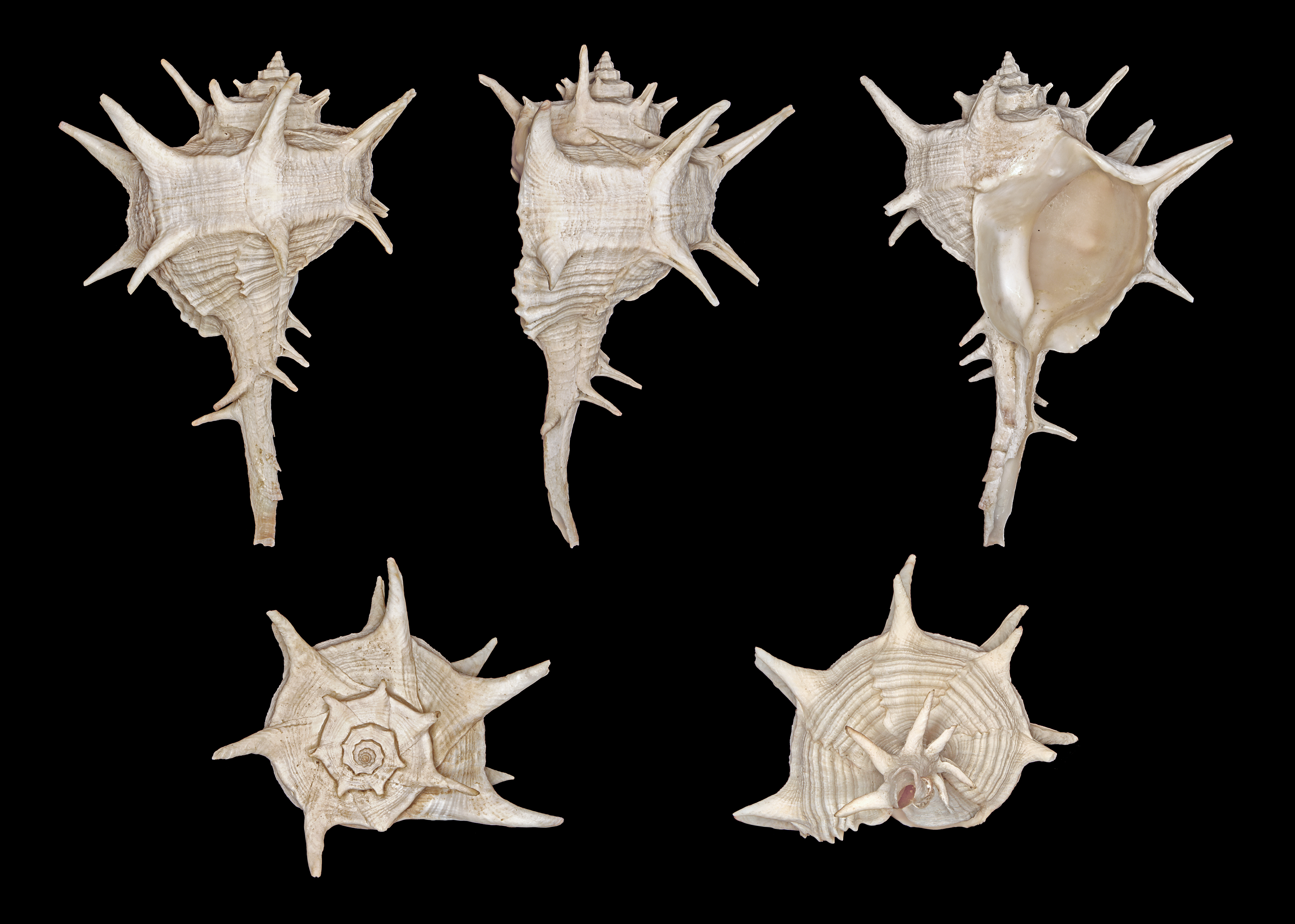 Purple Dye Murex; Length 7.5 cm; Originating from the Mediterranean, Coast near Montpellier, France; Shell of own collection, therefore not geocoded. Dorsal, lateral (right side), ventral, back, and front view.